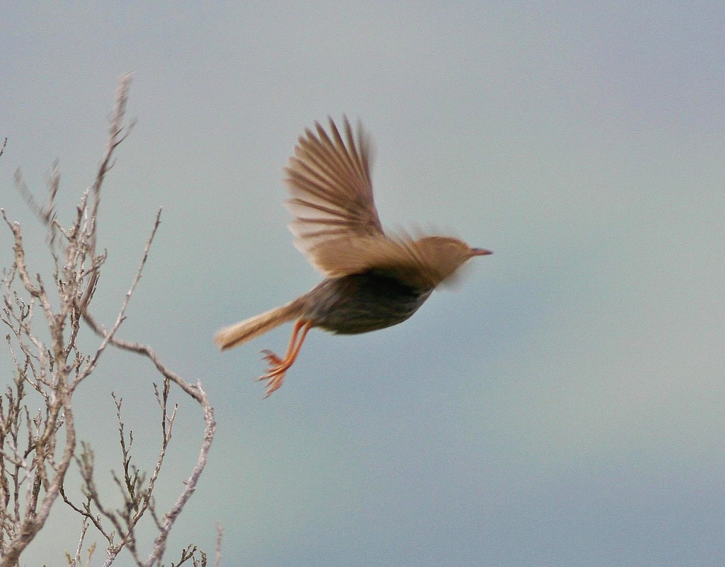 Neddicky (Cisticola fulvicapillus) in flight. From the Outeniqua pass.